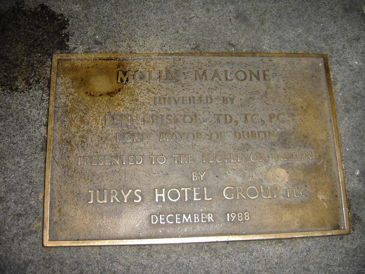 Molly Malone Memorial